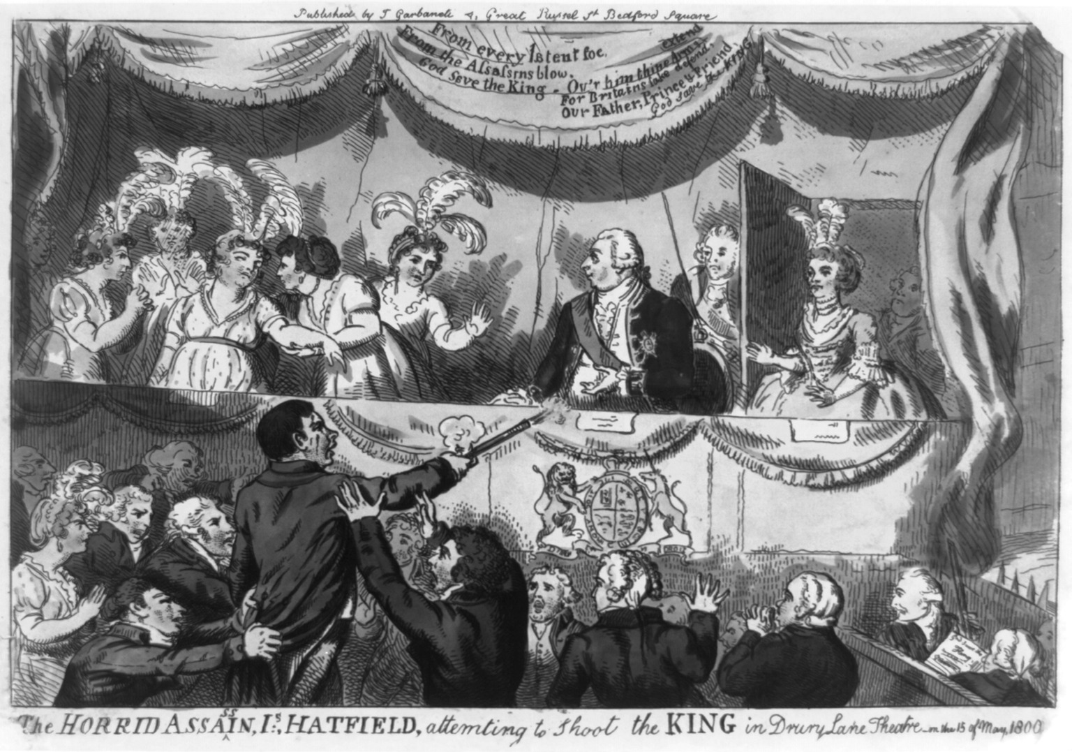 Title: The horrid assassin is Hatfield, attemting to shoot the King in Drury Lane Theatre on the 15th of May, 1800 Abstract: "Hadfield stands up in the pit and fires a pistol point-blank at the King, who turns reassuringly to a group of alarmed Princesses (left), while the Queen enters the box (right)..." (Source: George) Physical description: 1 print : engraving, colour. Notes: Forms part of: British Cartoon Prints Collection (Library of Congress).; [I. Cruikshank?].; This record contains unverified data from George.